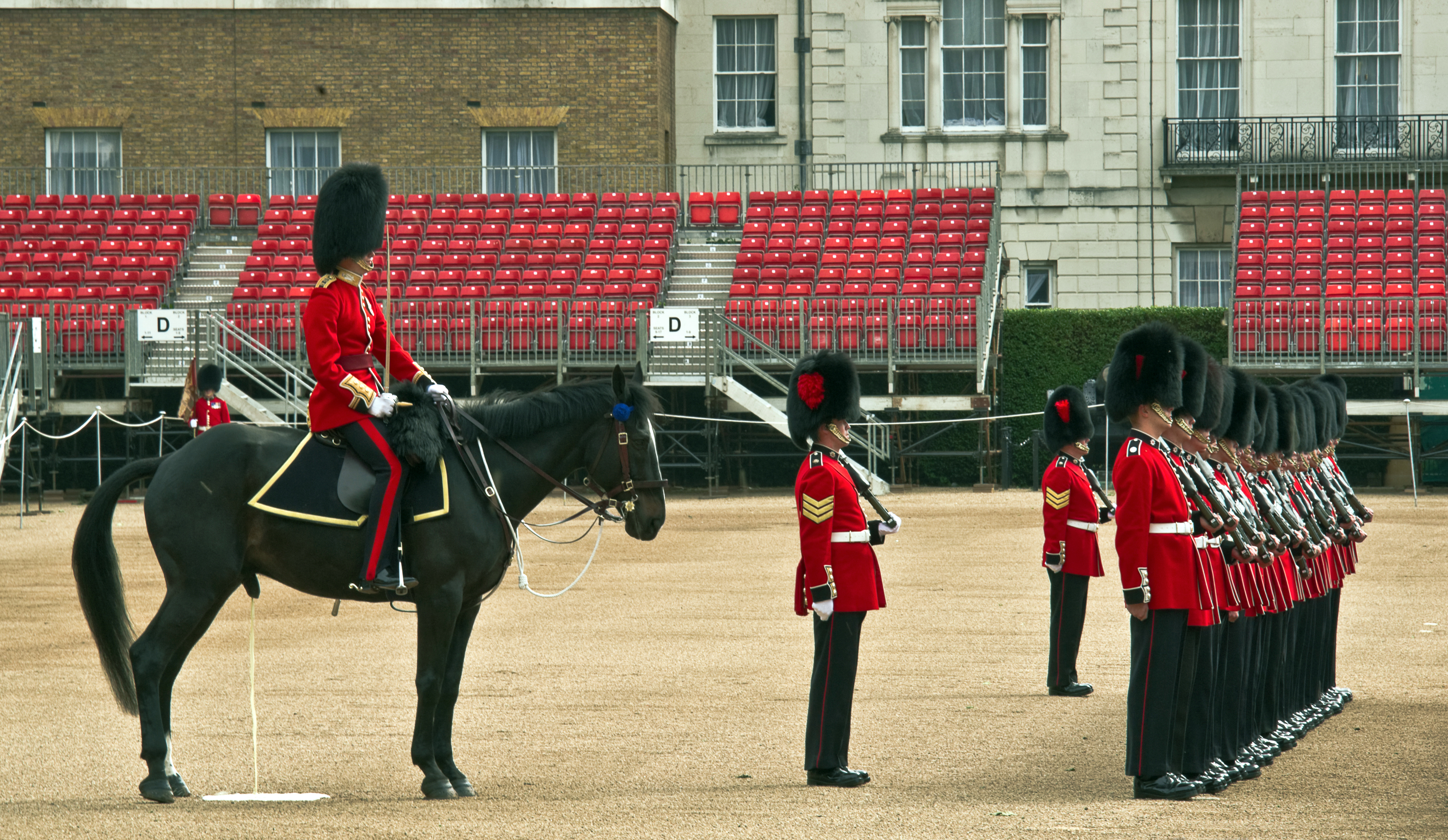 Guards horse having a pee during practicing for trooping the colour